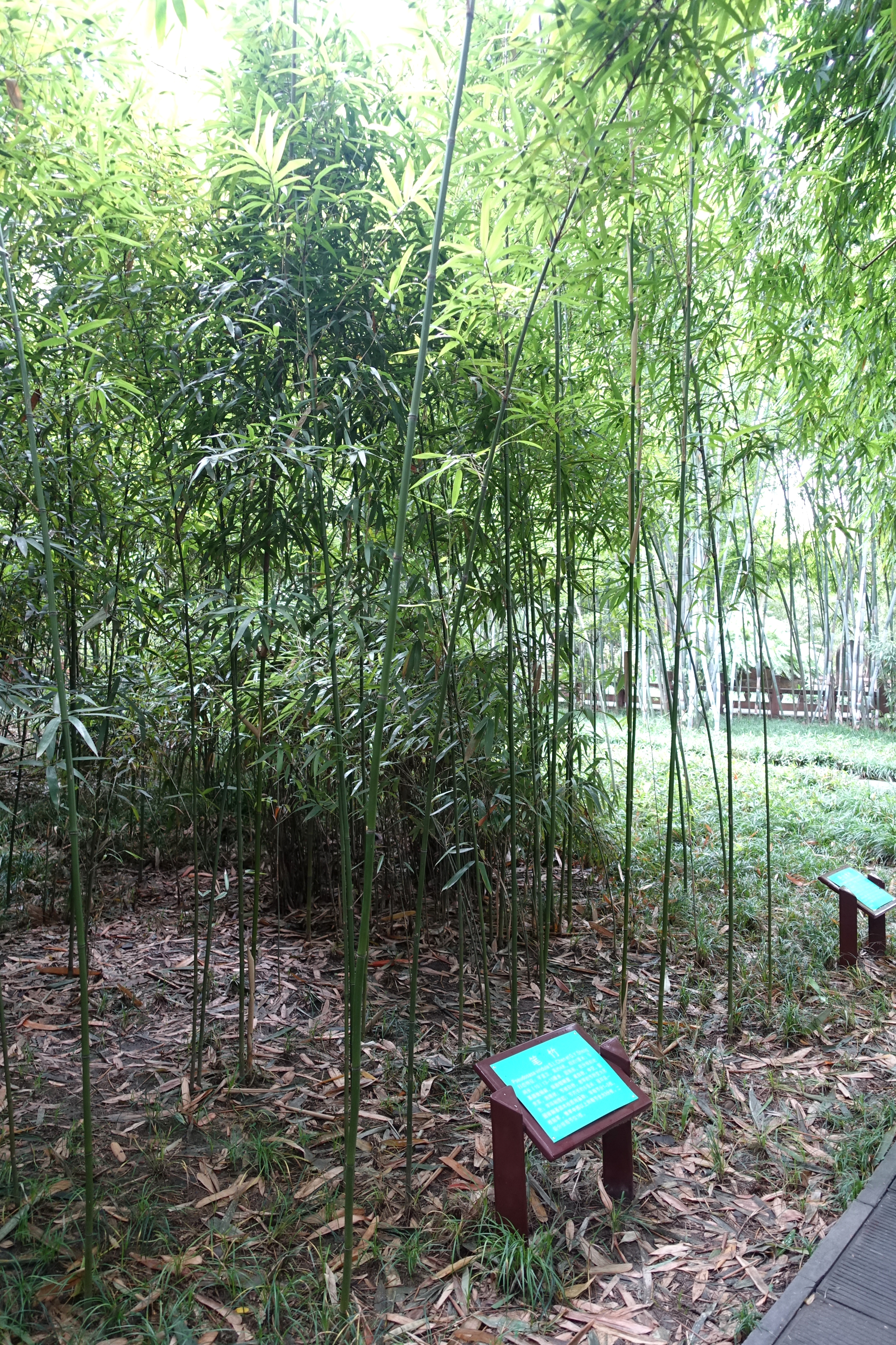 Bamboo specimen in Wangjianglou Park (望江楼公园) - Chengdu, Sichuan, China.